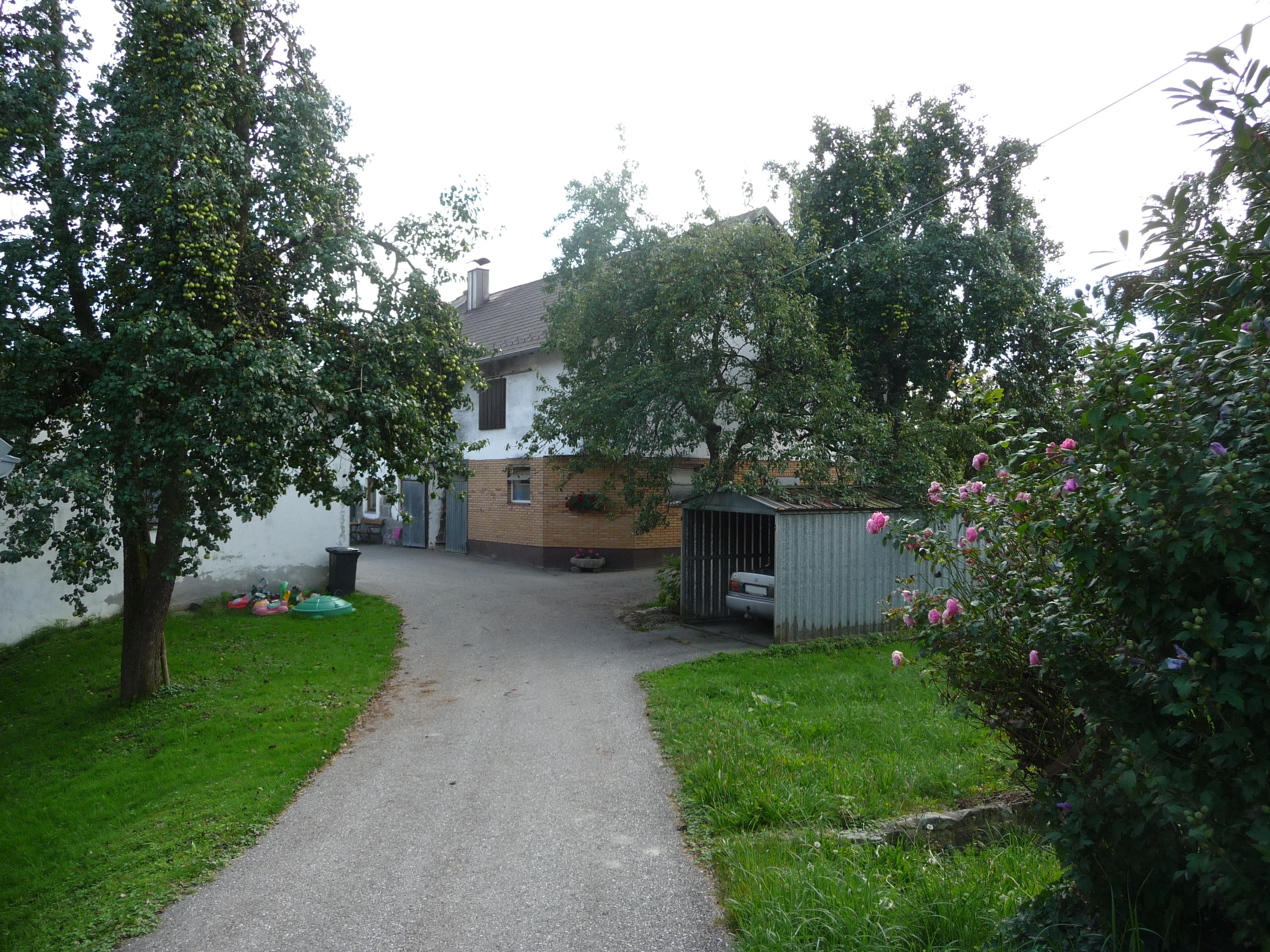 Building at the site of the former Laufenbach castle, Taufkirchen an der Pram municipality, Upper Austria